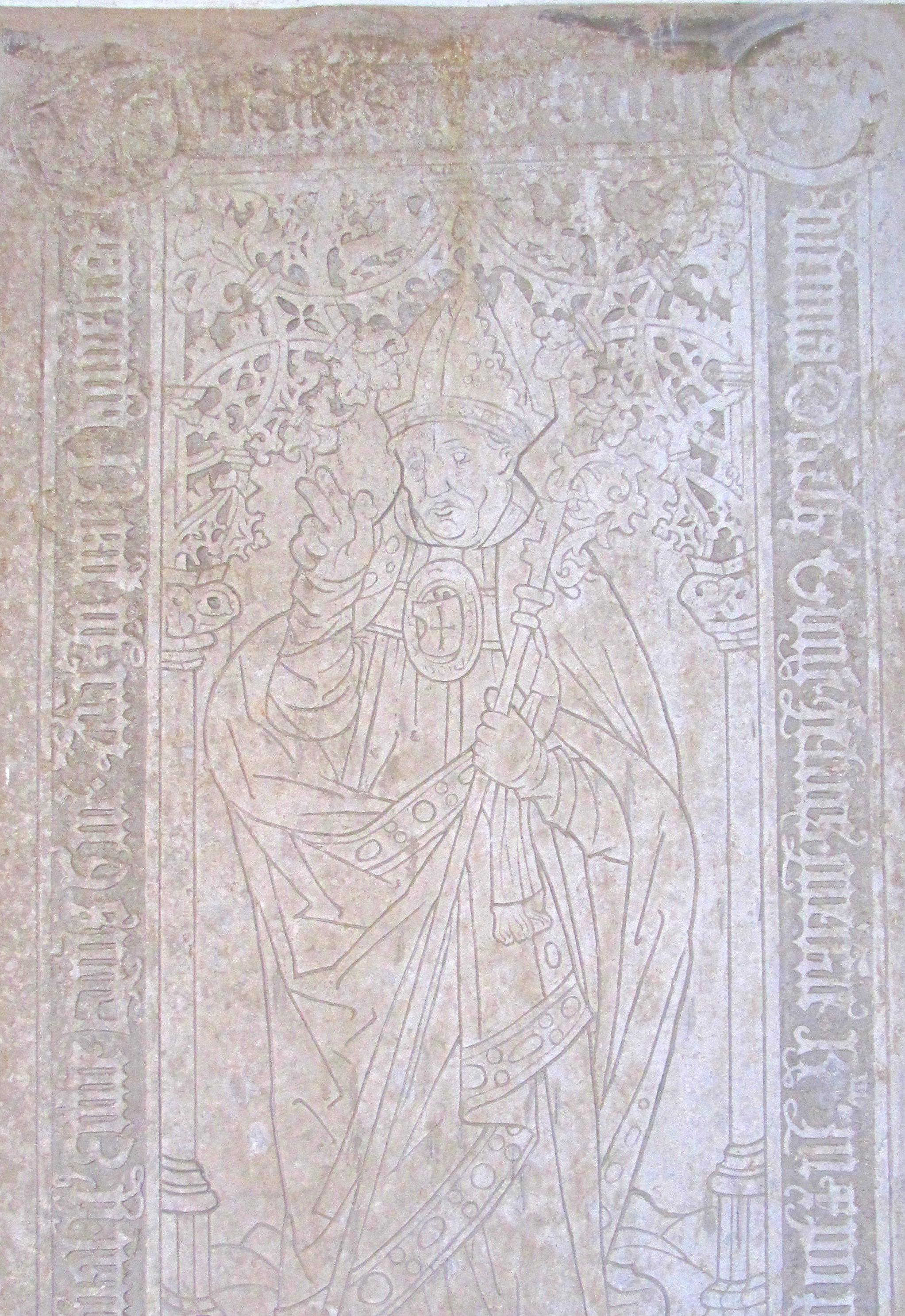 Ledger stone of Bishop Wlihelm Westphal (1509) in Lübeck cathedral